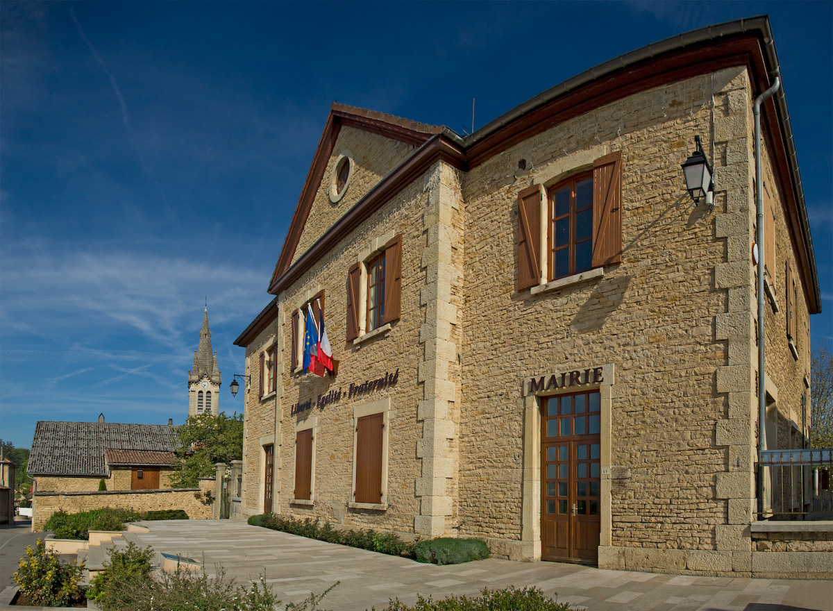 Panoramique sight (Huggin) of Saint Marcel Bel Accueil town hall